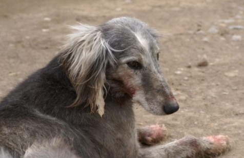 Taigan in Issyk-Kul, Kyrgyzstan